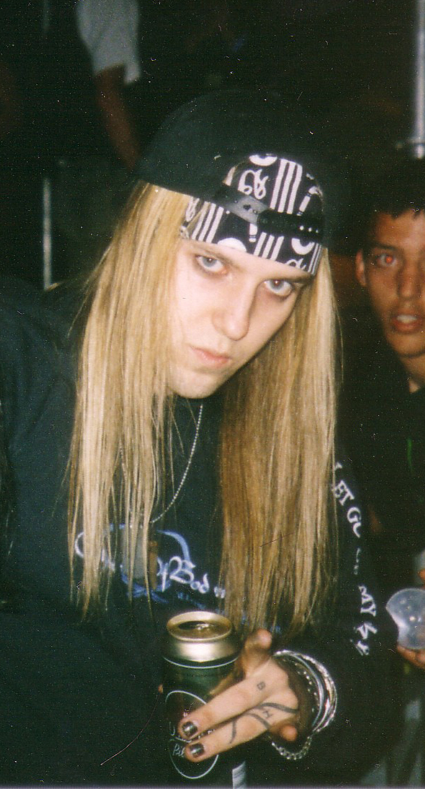 Alexi Laiho, Children of Bodom